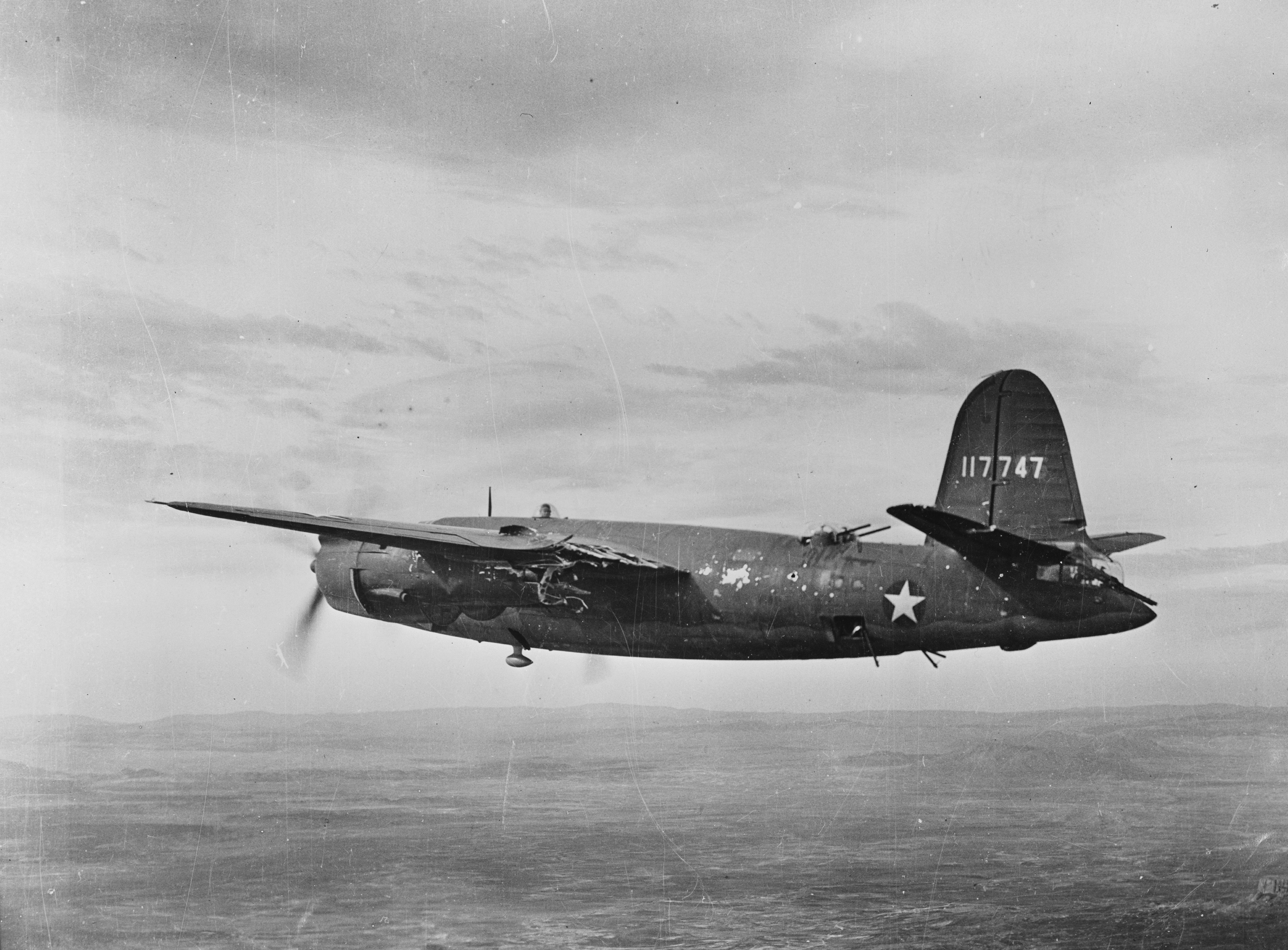 A U.S. Army Air Force Martin B-26B Marauder (s/n 41-17747) of the 37th Bomb Squadron, 17th Bomb Group. This aircraft was hit by flak and belly landed at Telergma, Algeria, on 23 March 1943. Original caption: "Her left wing and engine nacelle riddled by anit-aircraft fire, this B-26 (Martin Marauder) of the United States Army Air forces flies back and makes a safe belly landing after a bombing raid in Tunisia."